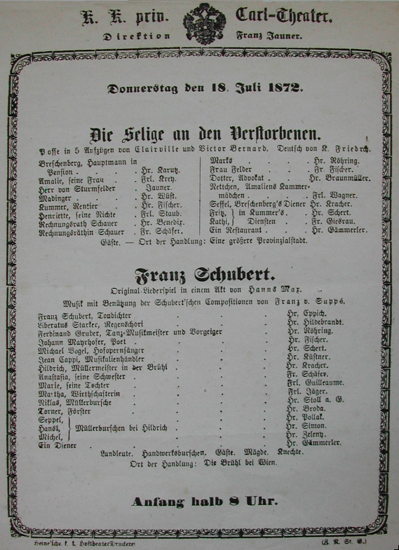 Suppé: Franz Schubert